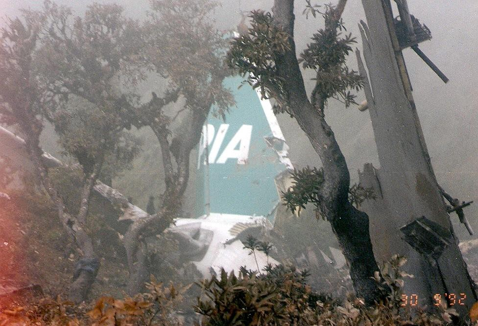 Pakistan International Airlines Flight 268 Crashsite